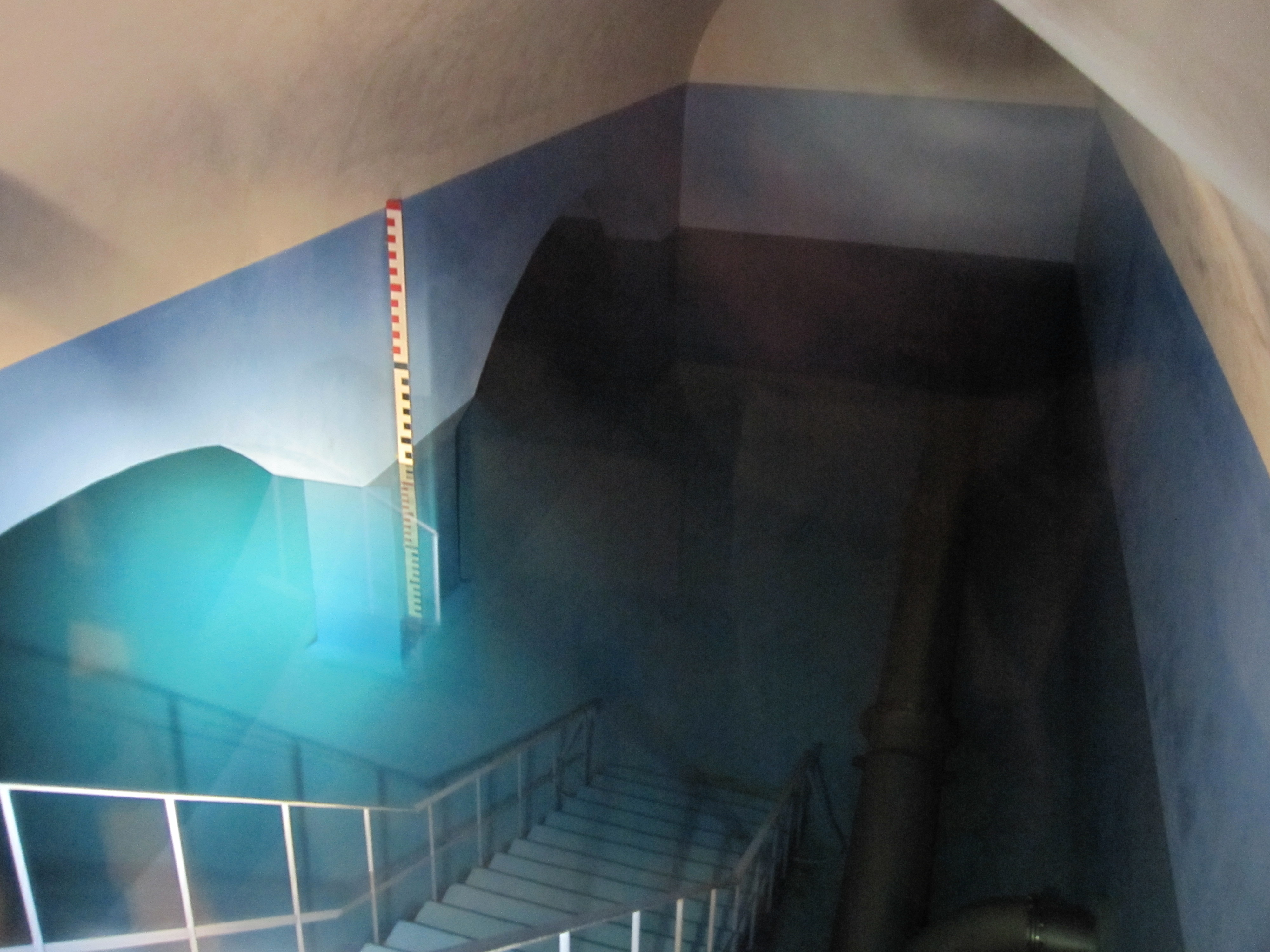 Interior of Wasserschlössle Freiburg Breisgau. Pictures taken during annual celebration with allowance of municipal water supplier badenova.